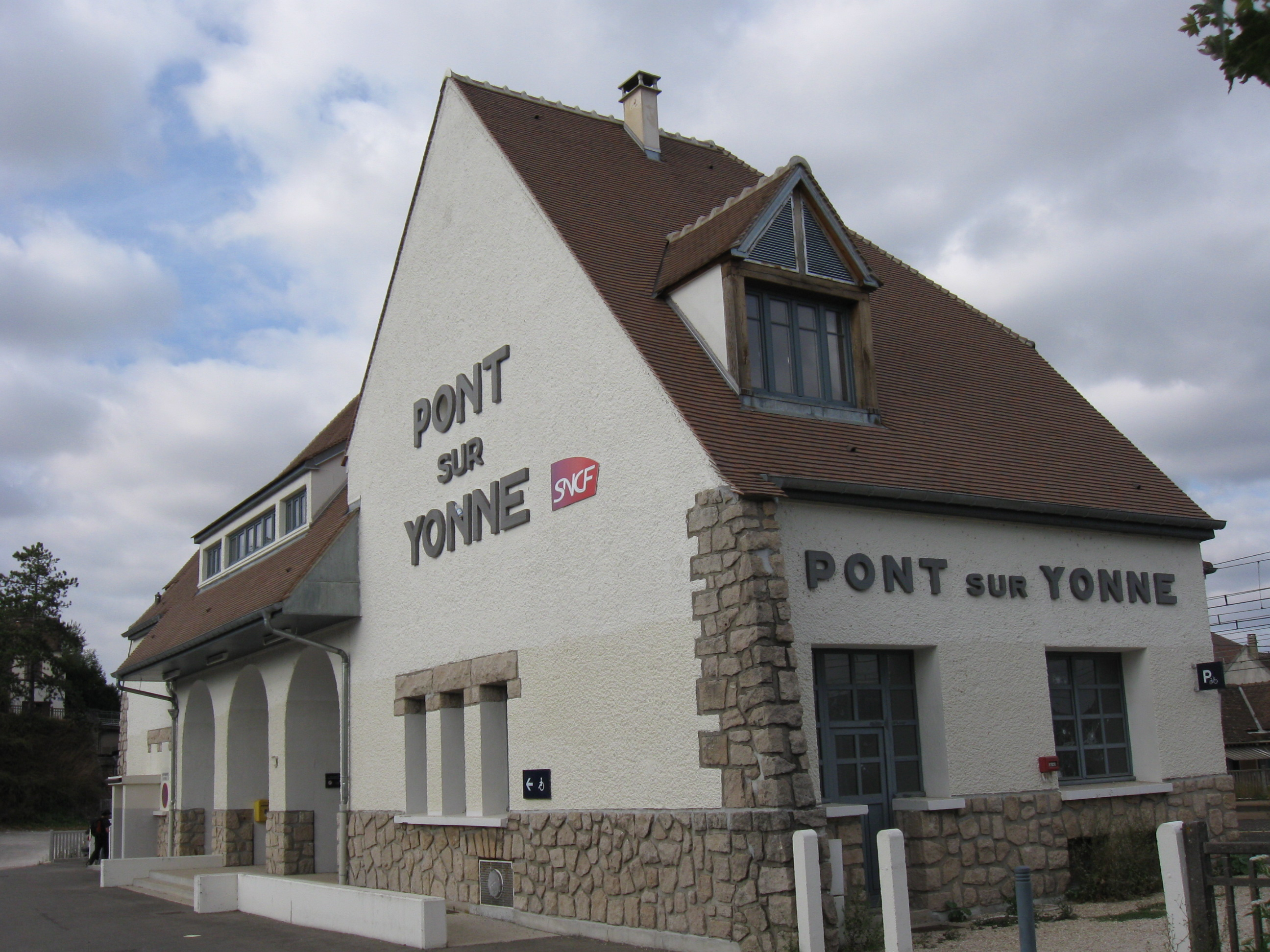 Pont-sur-Yonne Railway station. (Yonne department, Bourgogne).